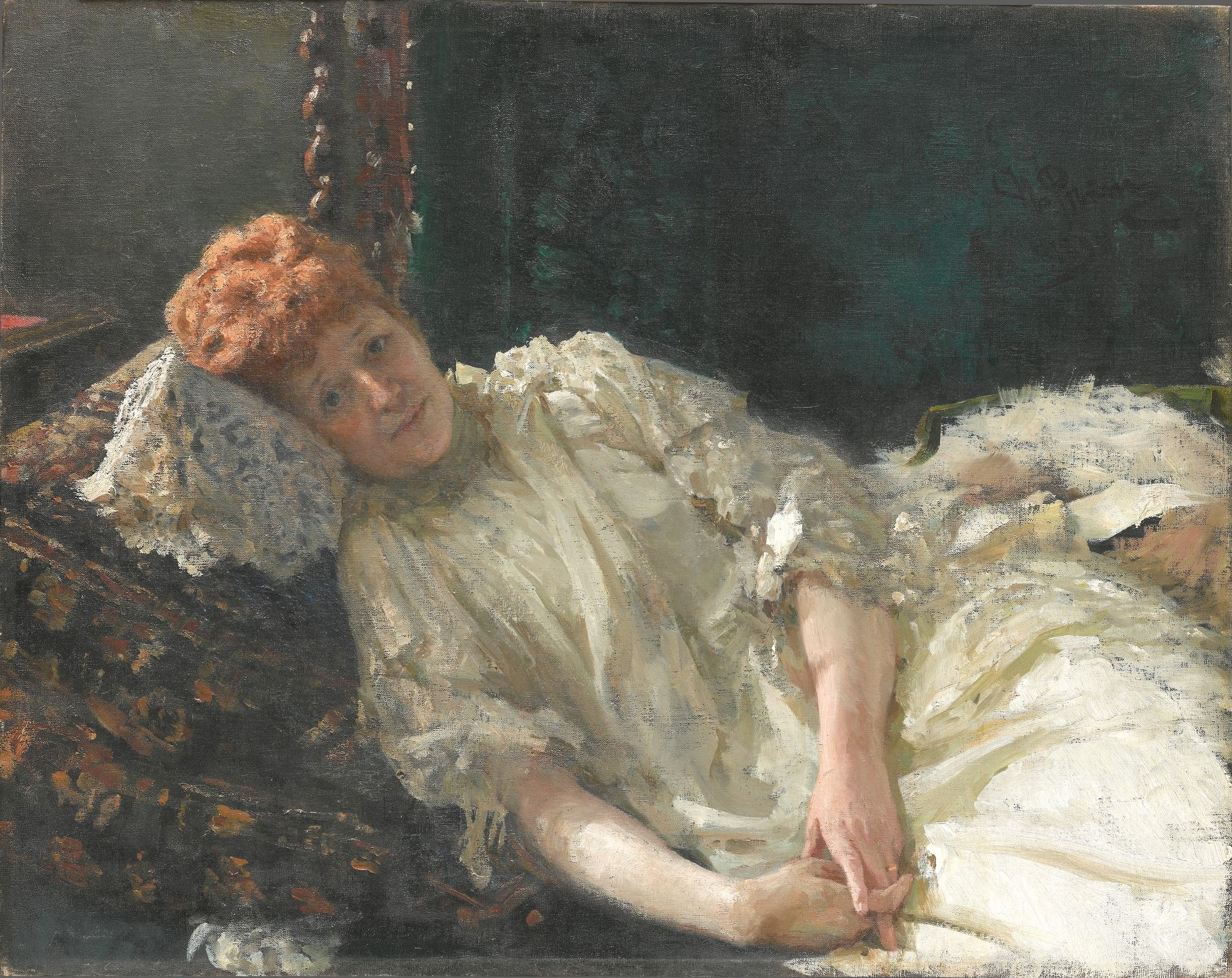 Portrait of pianist and comtesse Louise de Mercy-Argenteau